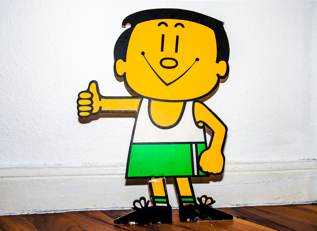 Trimmy is the mascot of the German sportive movement "Trimm-dich-Bewegung" by Deutscher Sportbund which started in the early 70s.